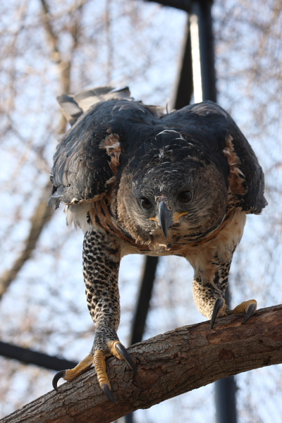 African Crowned Eagle (Stephanoaetus coronatus) in Szeged Zoo